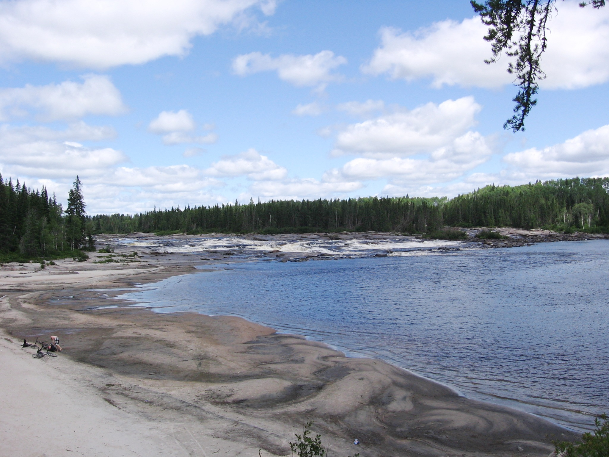 the 9th fall